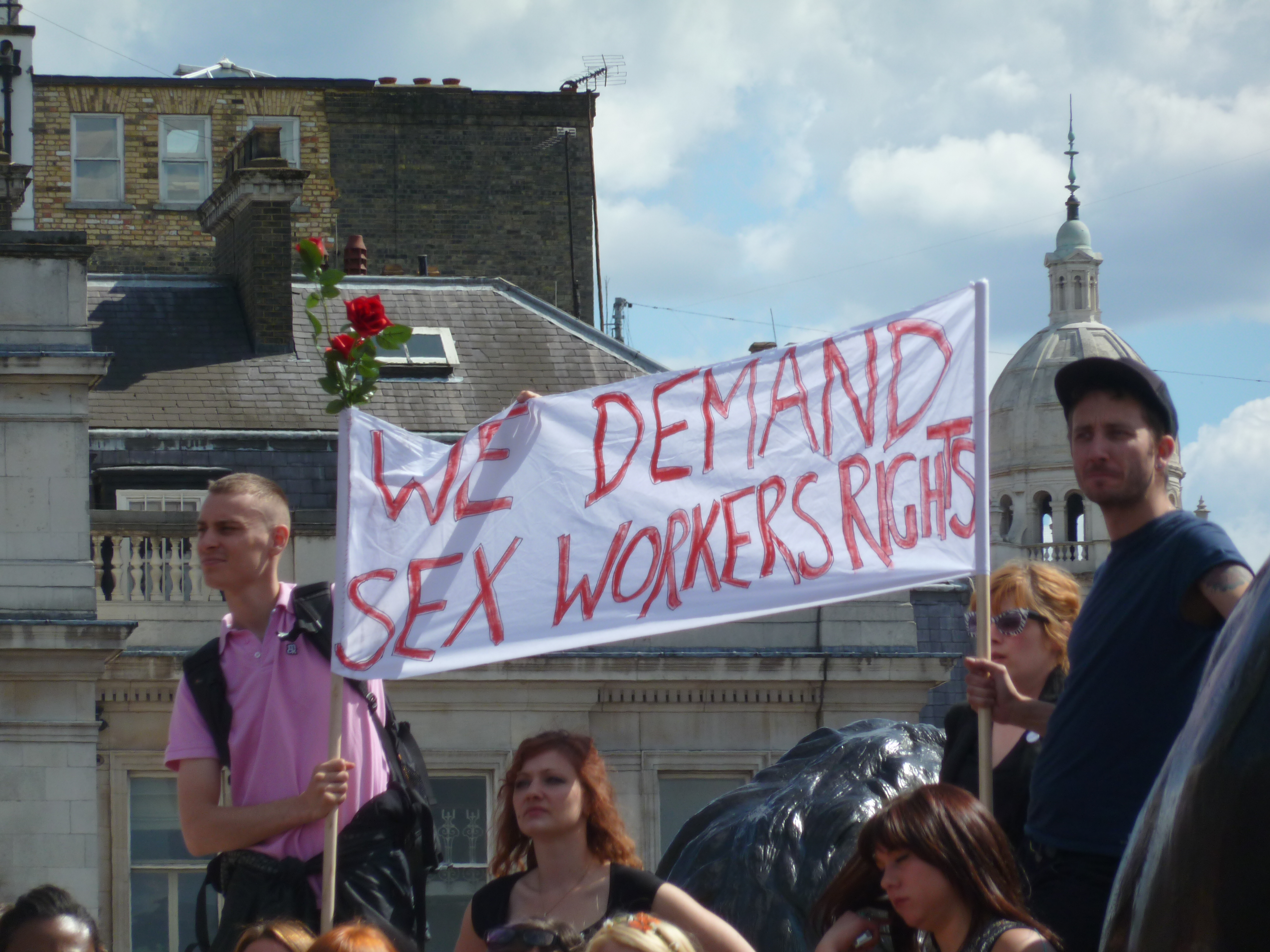 Sex worker rights demonstrators at feminist, sex-positive London SlutWalk, 2011